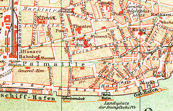 Ausschnitt aus Hamburg.Plan.1890.png